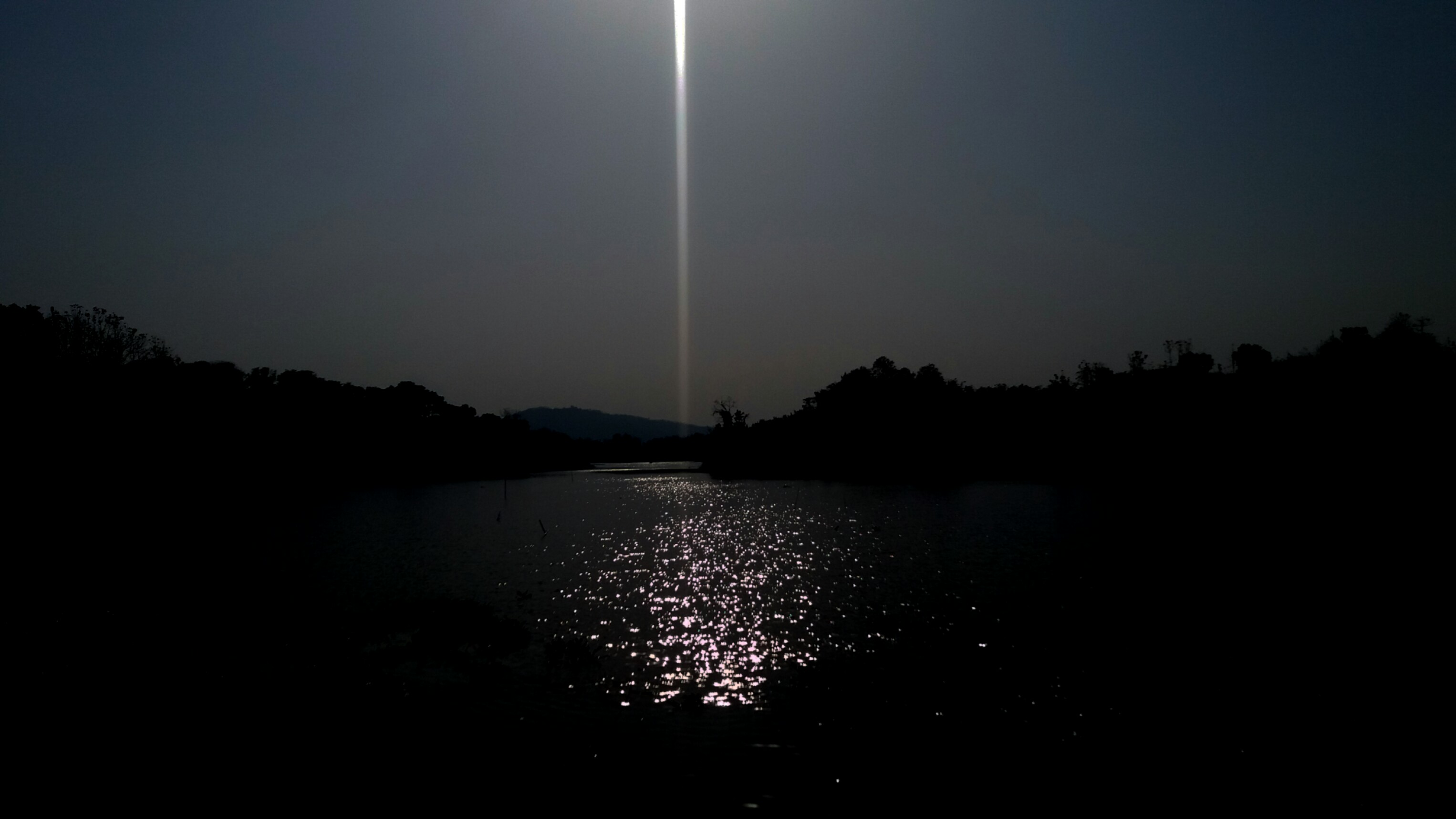 Captured at late afternoon